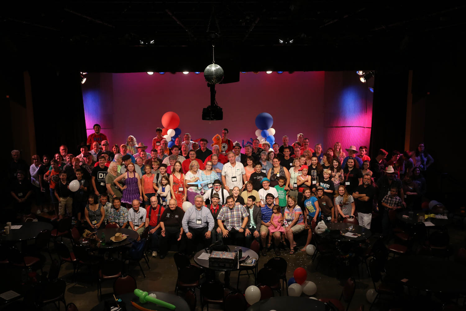 This is a photo from the International Fellowship of Christian Magicians conference.